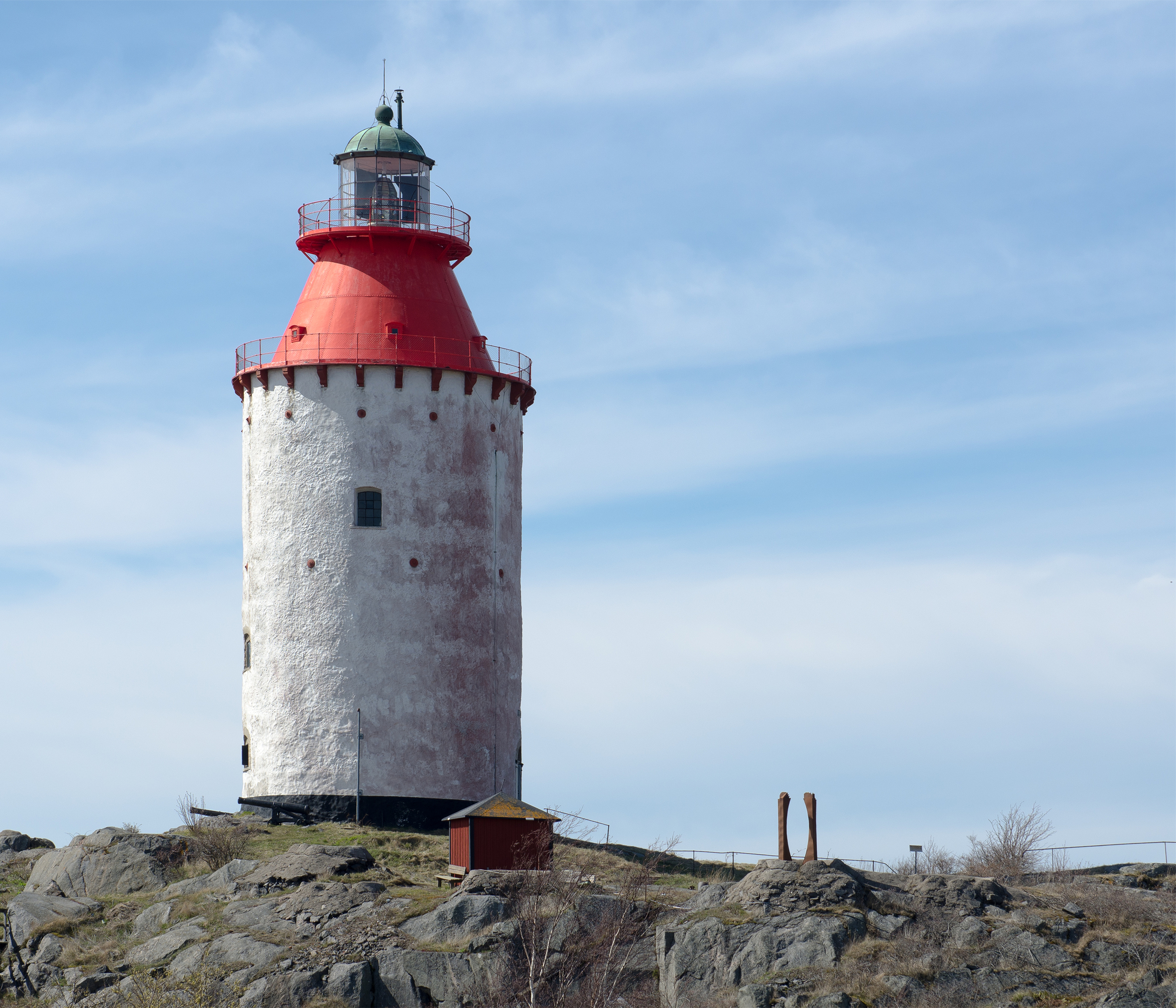 Landsort Lighthouse at Öja island (Landsort), Stockholm archipelago's most southern point.